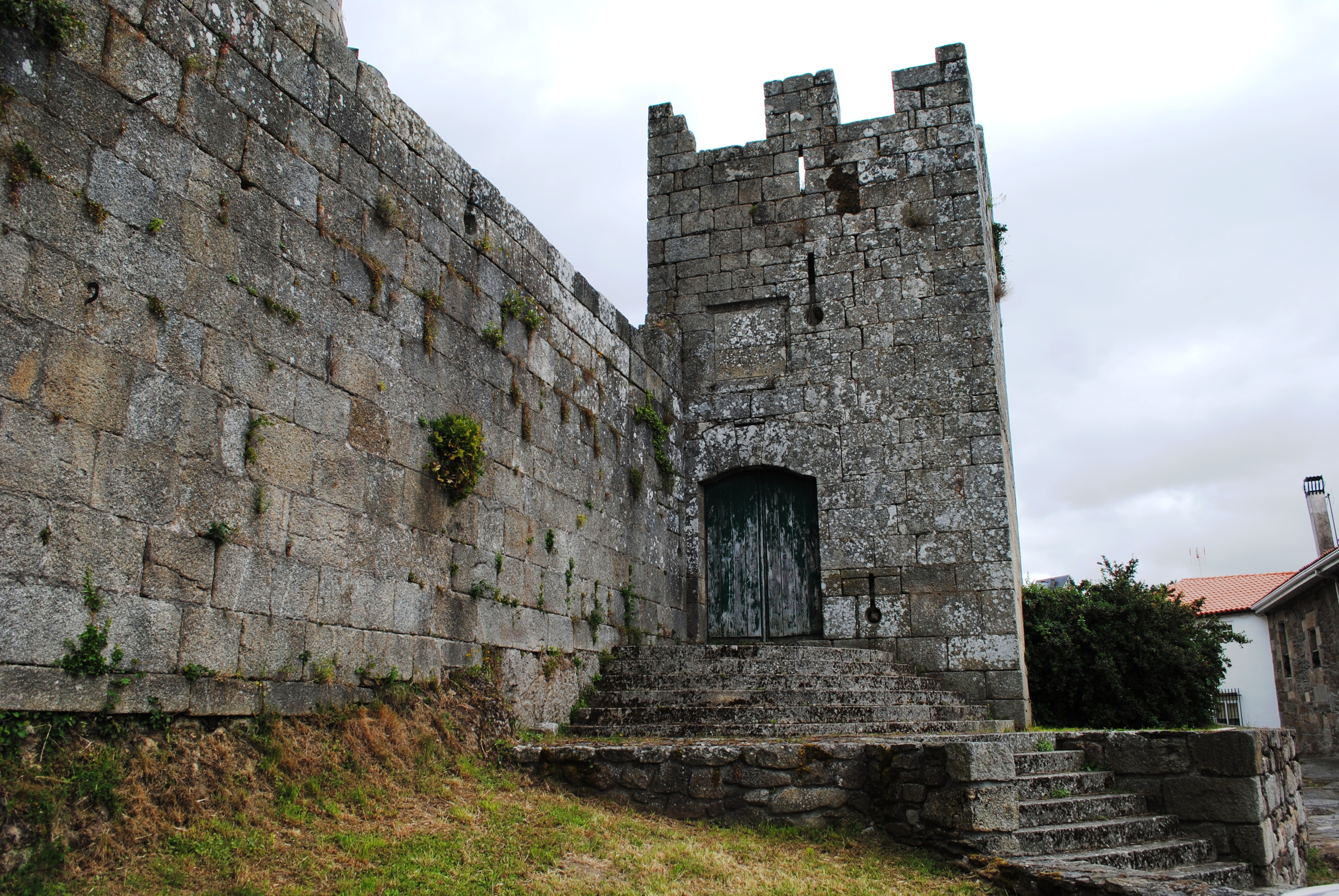 see title